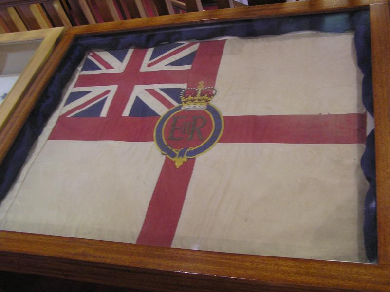 The first Monarch's Colours (Standard) received by the Royal Australian Navy from Elizabeth II of the United Kingdom. Laid up in the Naval Chapel. I took this picture. Peter Ellis 12:10, 12 November 2006 (UTC)